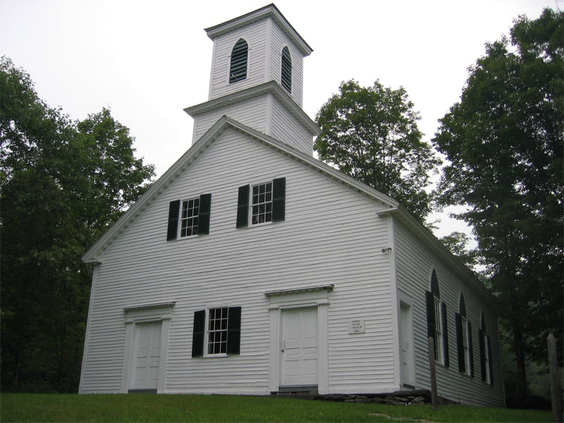 Photograph of the Green River Church in Guilford, Vermont. Built 1838. Source: Photograph taken by Jared C. Benedict on 20 August 2004. Copyright: © Jared C. Benedict.